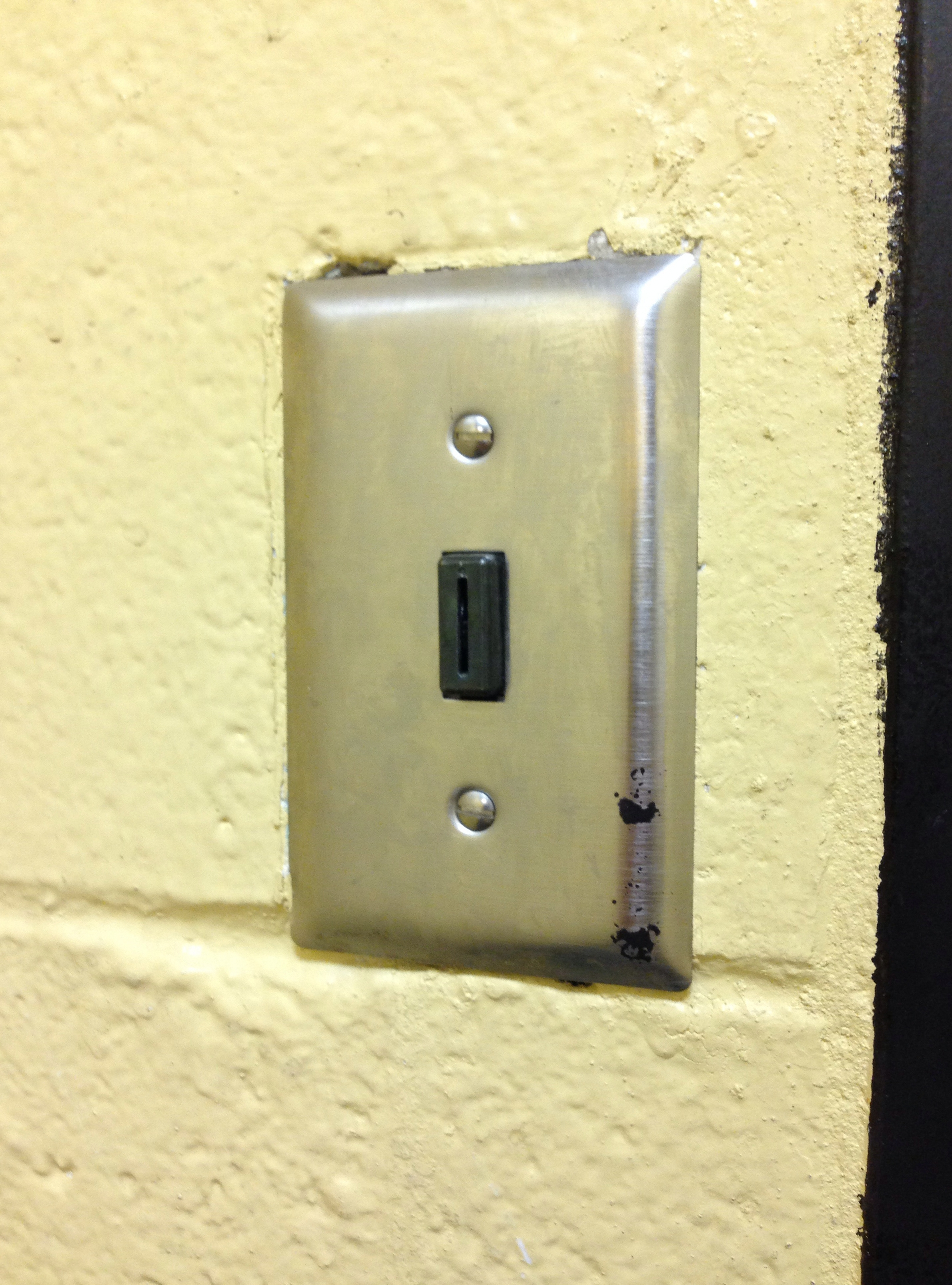 Locking switch, also known as key switch, with simple tamper resistant mechanism, often used in corridor and restroom lighting controls of public buildings.